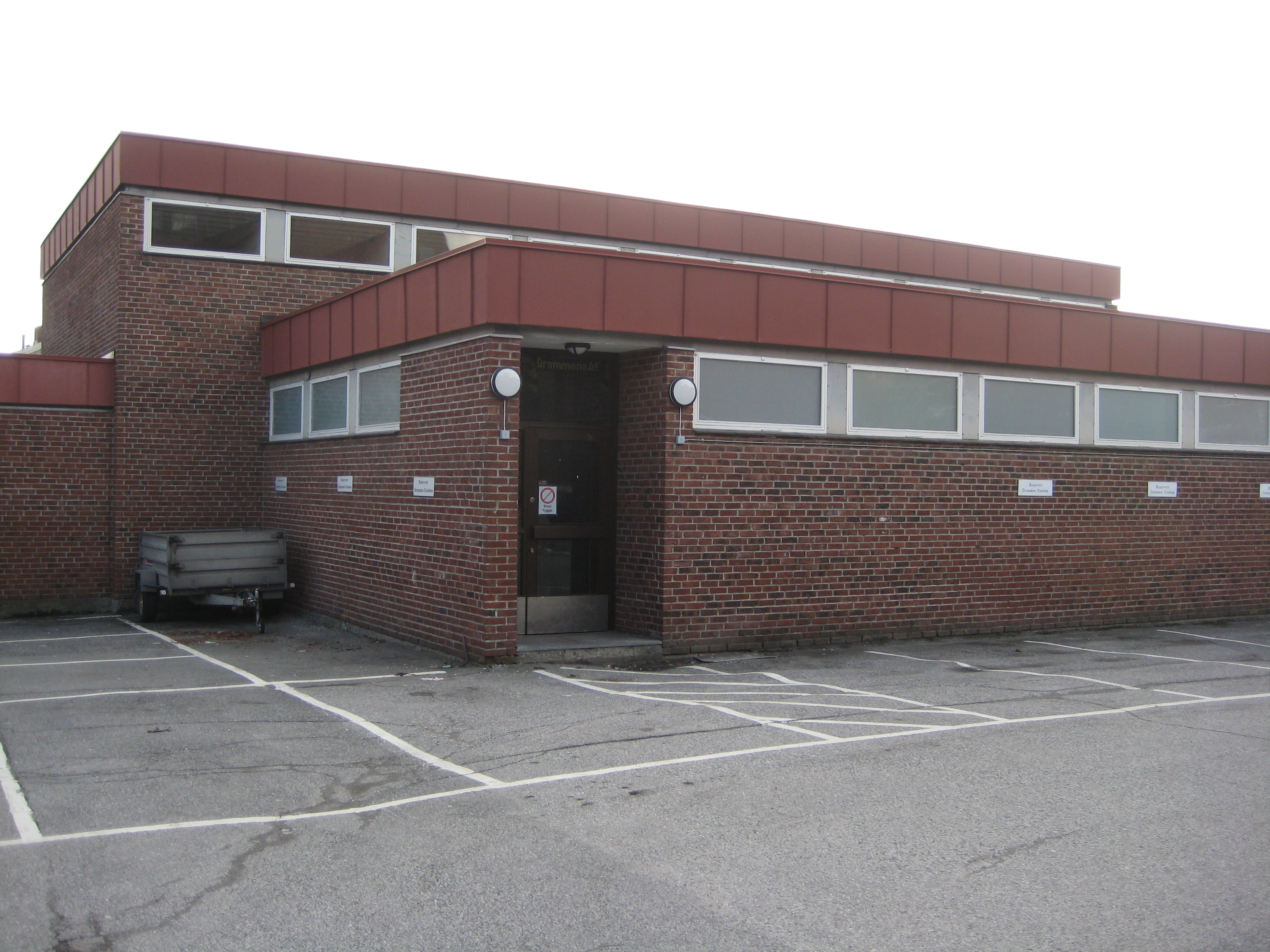 Fjellheim skole, Drammen, Norway